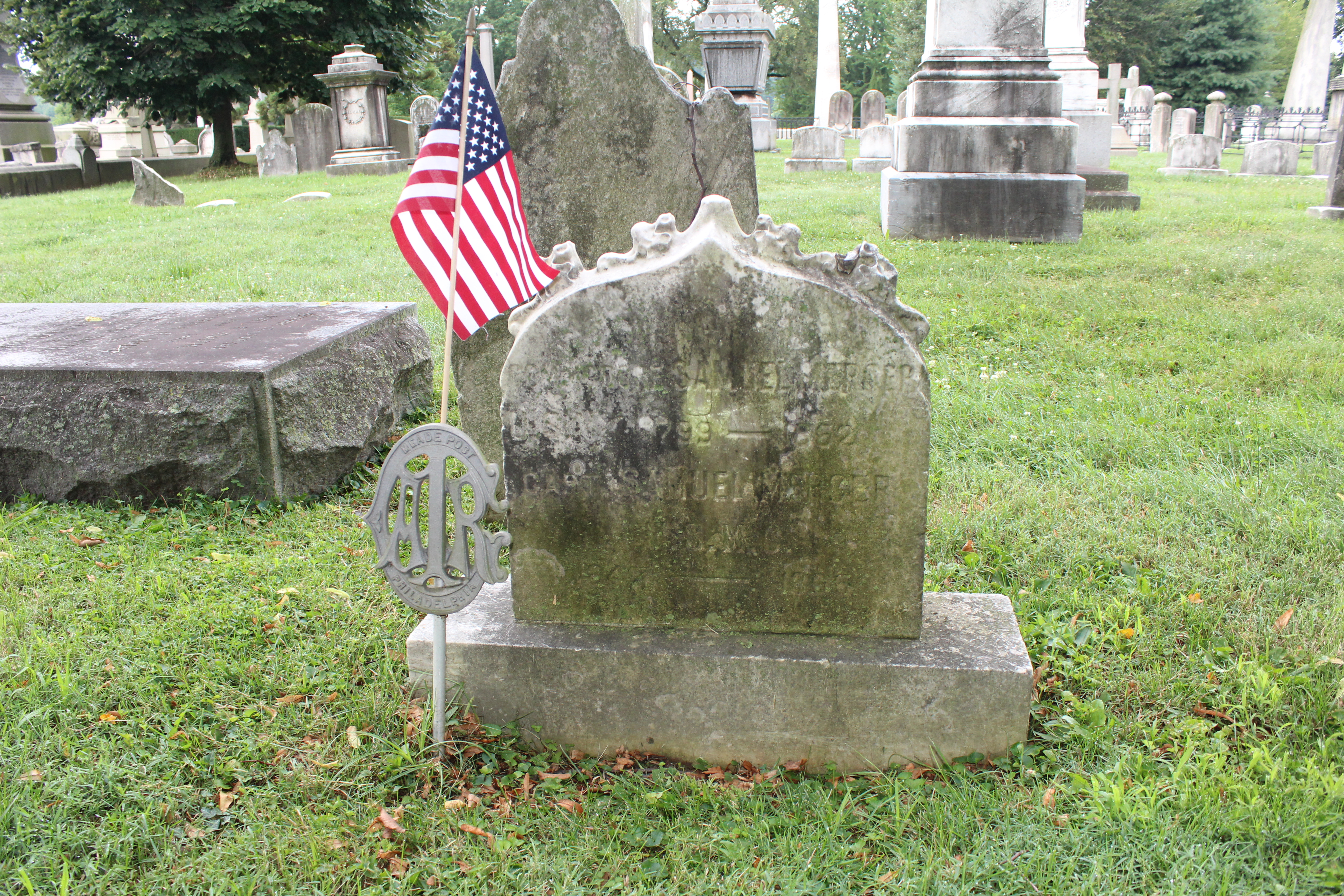 Samuel Mercer gravestone in Laurel Hill Cemetery. Photo taken July 2020.